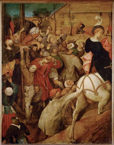 Copy attributed to Pieter Brueghel the Younger after an original by his father Pieter Brueghel the Elder